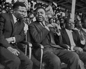 From left to right: Albert Kinyanta, Moïse Tshombe, and Godefroid Munongo at a football match in Léopold II Stadium in Elisabethville